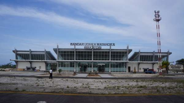 Matahora Airport, Wakatobi, Southeast Sulawesi, Indonesia